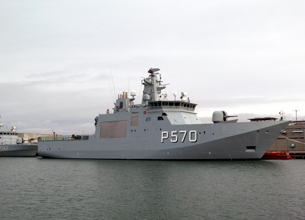 P570 Knud Rasmussen. The first of the danish navy Knud Rasmussen-class ocean patrol crafts. Commisioned in 2008.